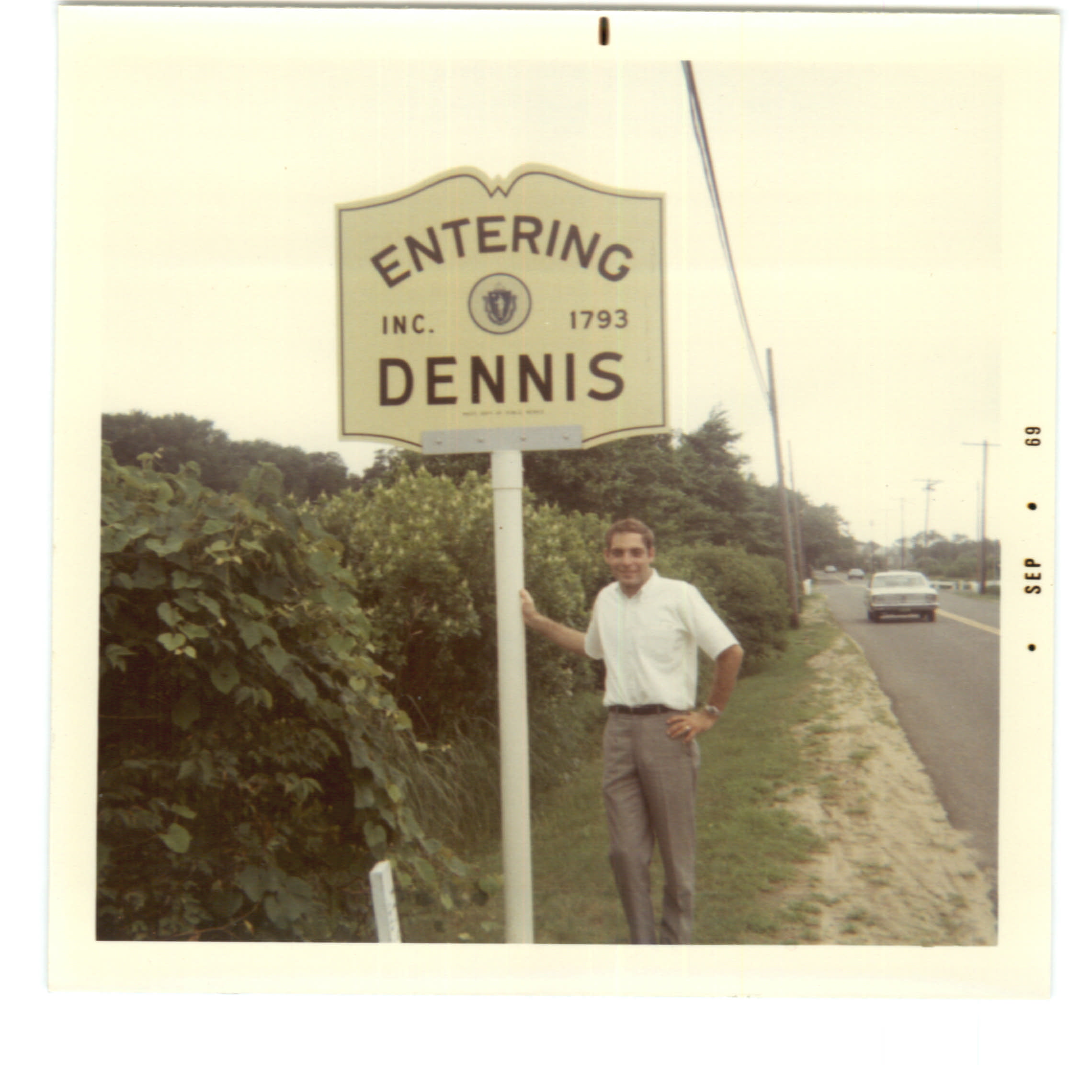 Welcome to Dennis sign in 1969 with Dennis L. standing next to it.